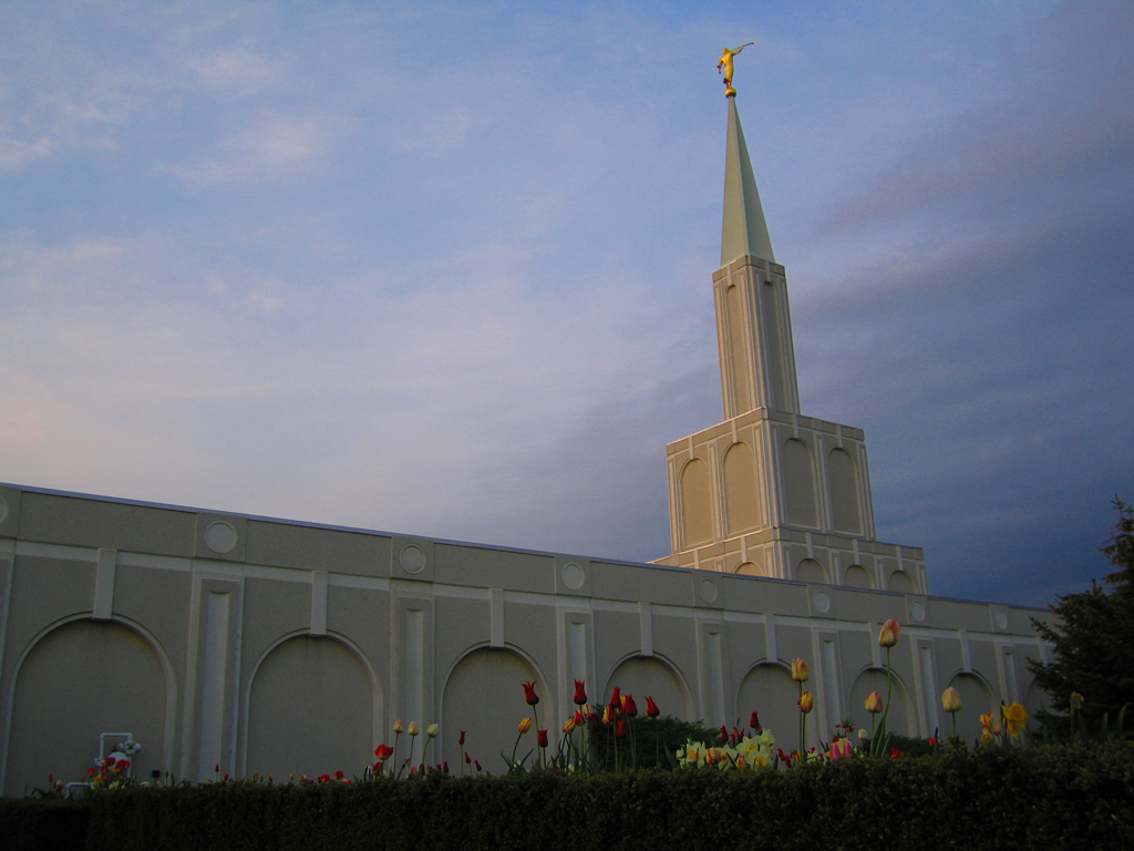 The Toronto Ontario Temple of The Church of Jesus Christ of Latter-day Saints, located in Brampton, Ontario, Canada.